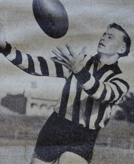 Photograph of Dick Allen in 1943